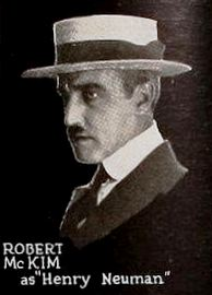 American actor Robert McKim from an ad for the American western film Riders of the Dawn (1920), on page 4268 of the May 22, 1920 Motion Picture News.